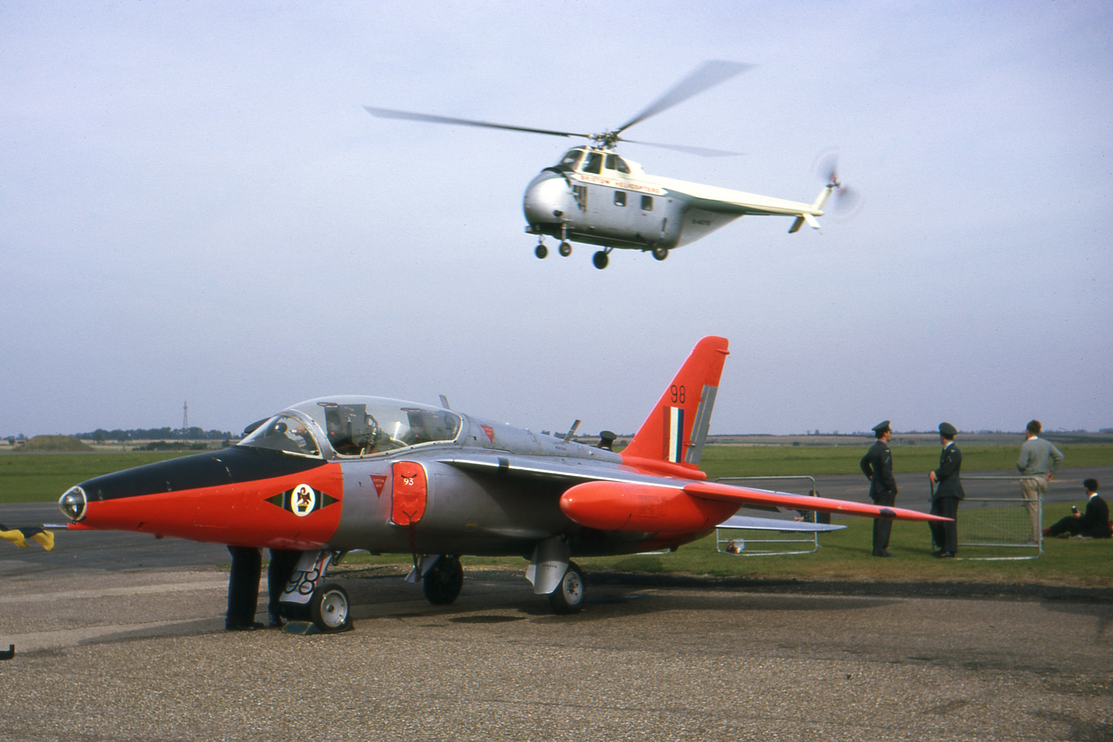 Folland Gnat Trainer with Whirlwind G-AOYB overhead at RAF Waterbeach, Cambridgeshire on Battle of Britain Day 14 September 1963